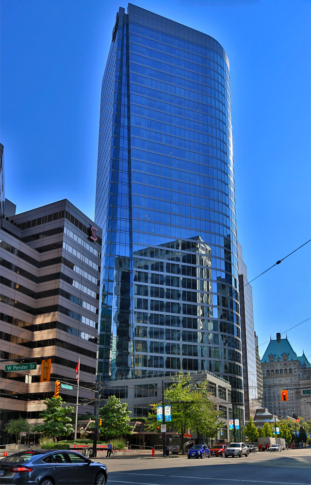 Bentall 5 office tower in Vancouver.